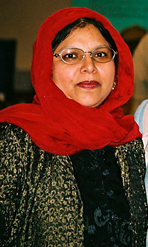 An image of Baroness, Manzila Pola Uddin